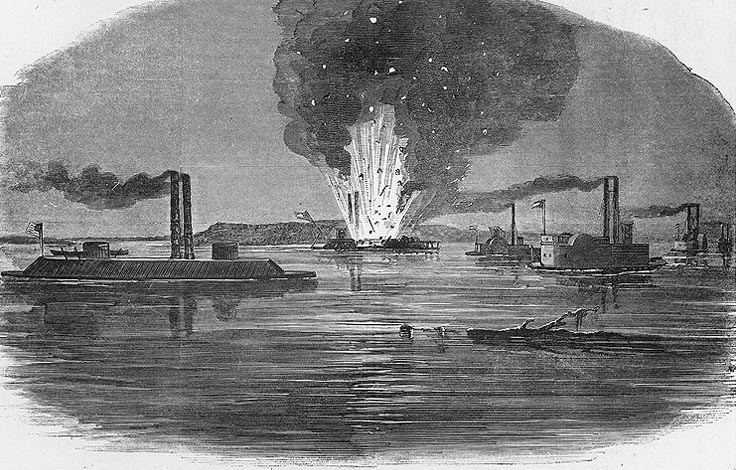 USS Indianola, an American Civil War river gunboat, blown up by confederates to avoid recapture after a dummy Union warship appears. Original caption: "Line engraving after a sketch by Theodore R. Davis, published in "Harper's Weekly", 1863, depicting the 25 February 1863 operation in which a dummy ironclad (left) was floated down the Mississippi River by the U.S. Navy, causing the Confederates to destroy the captured ironclad USS Indianola. CSS Queen of the West is depicted at the right." Ship was sunk at the head of Palmyra island. Then adjacent to the plantation of Jefferson Davis, and "New Carthage". Shown on this map [1]. Current day view of present day "Davis Island" is shown here.